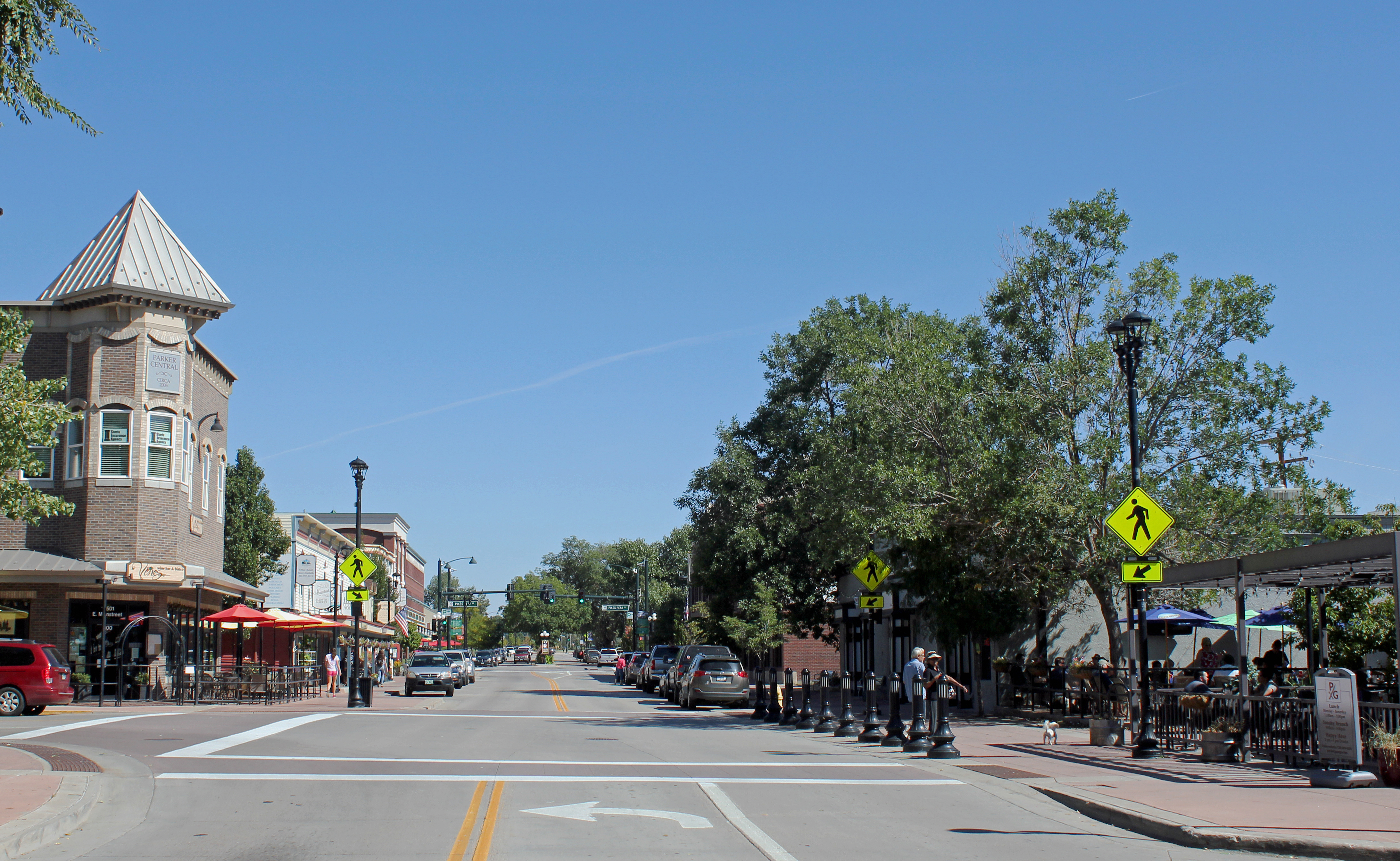 A view of Mainstreet in Parker, Colorado.